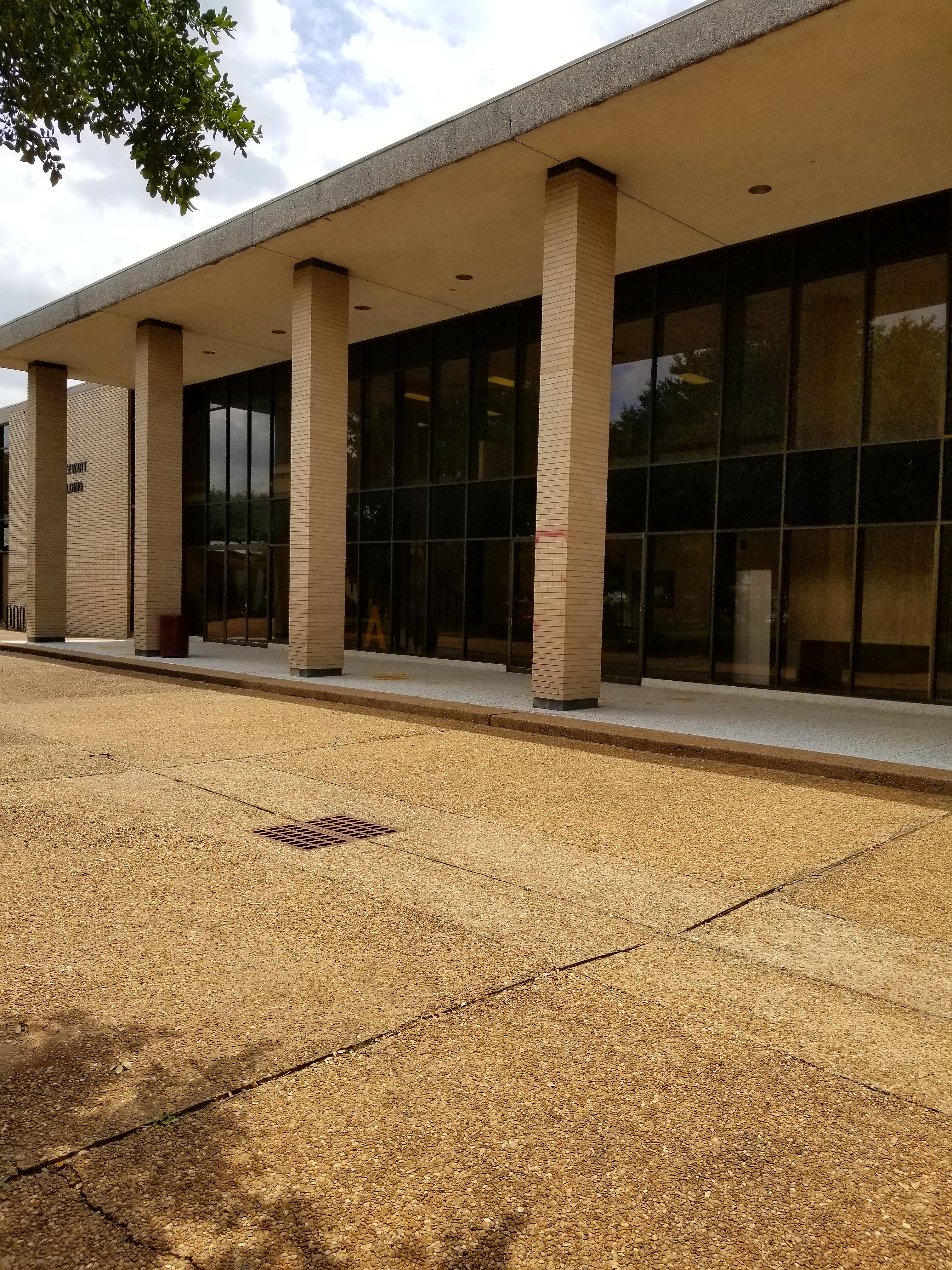 Rollin-Stewarts Music building